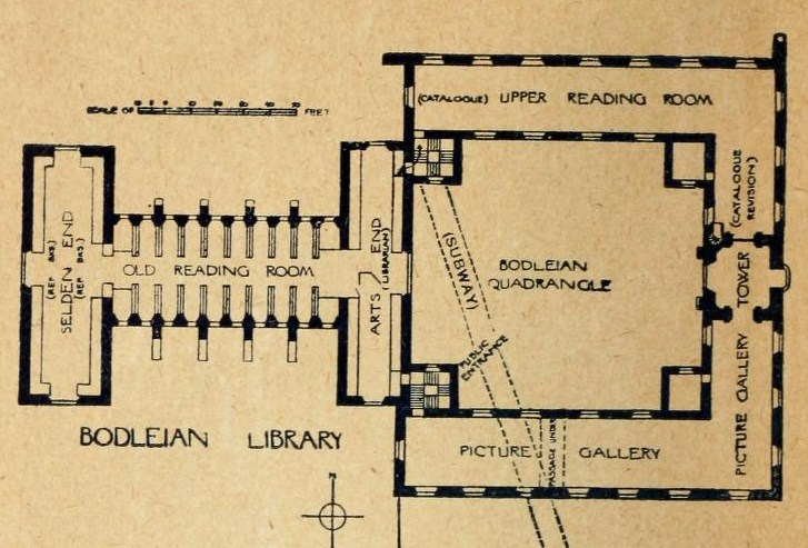 Map of the Bodleian Library, Oxford, from The Bodleian Library at Oxford (1919), by Falconer Madan. Duke Humfrey's Library, the oldest reading room in the Bodleian Library, was featured as Hogwarts library in Harry Potter films.